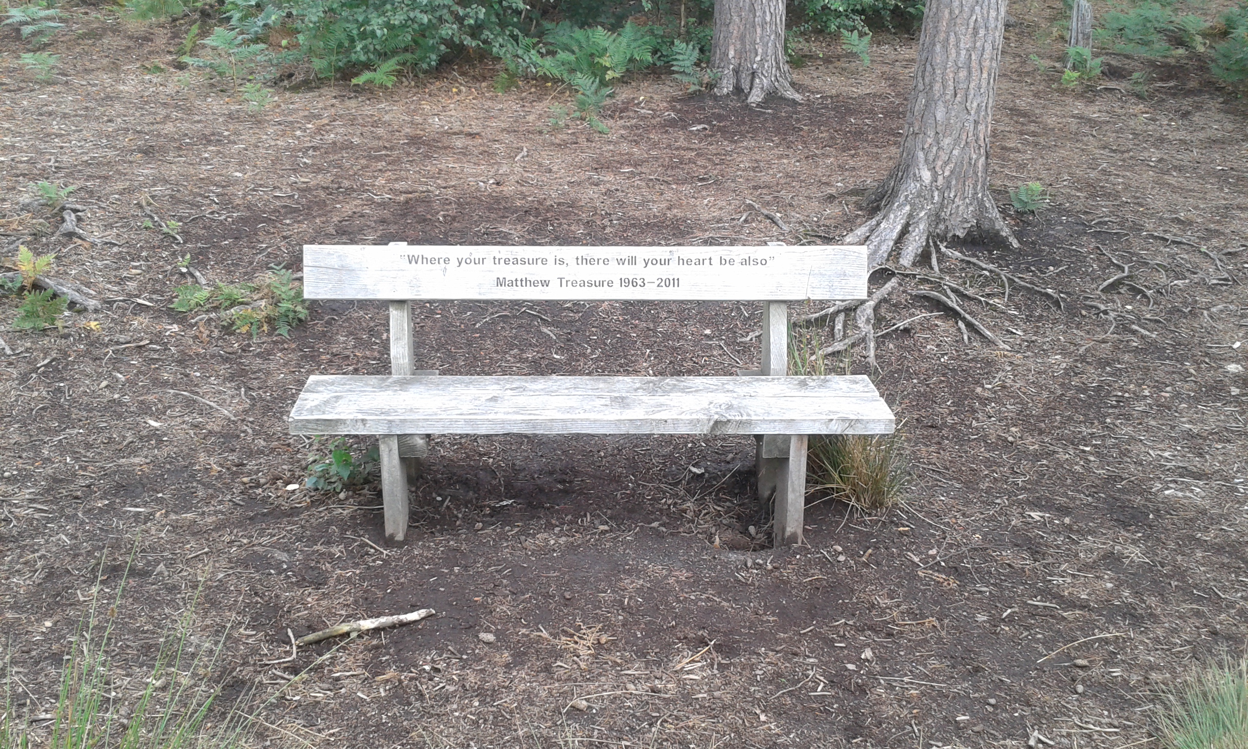 "Where your treasure is, there will your heart be also" Matthew Treasure 1963-2011